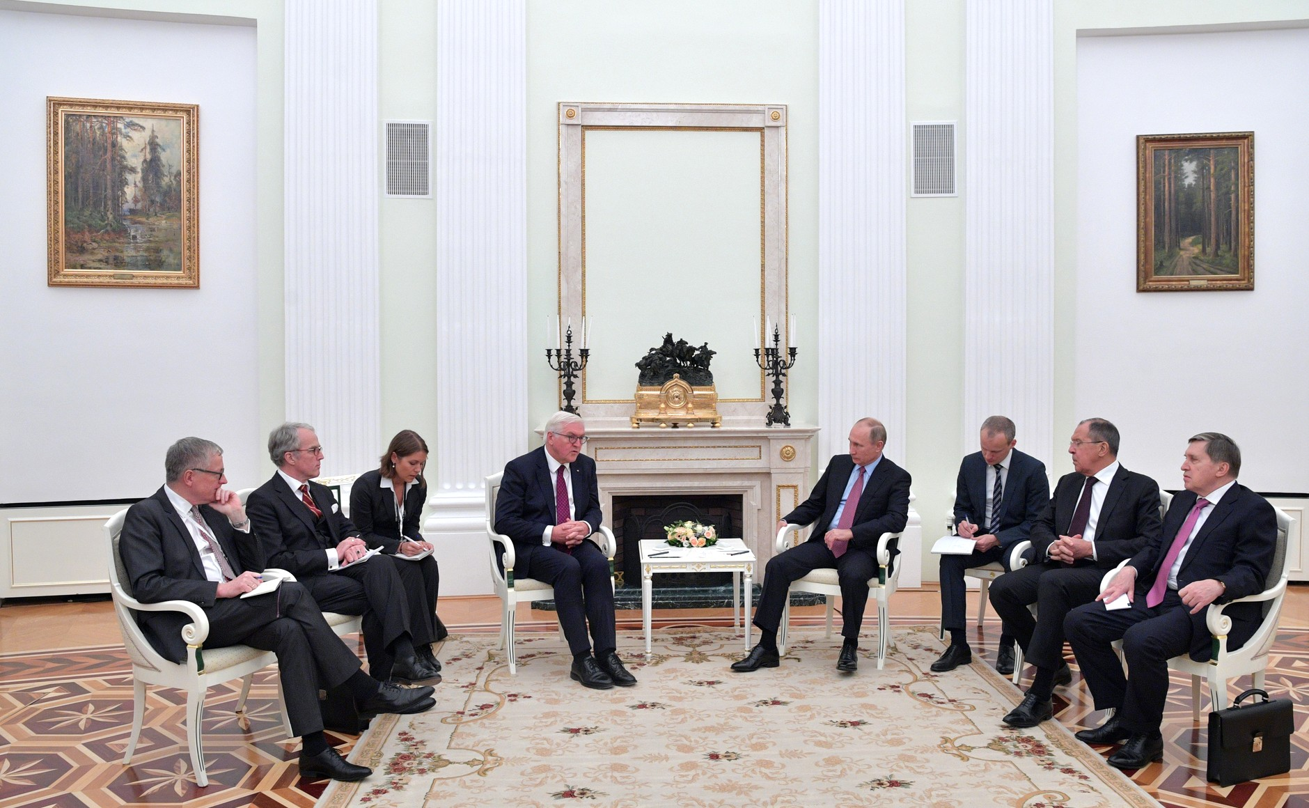 Vladimir Putin and Frank-Walter Steinmeier in Moscow, 25 October 2017.